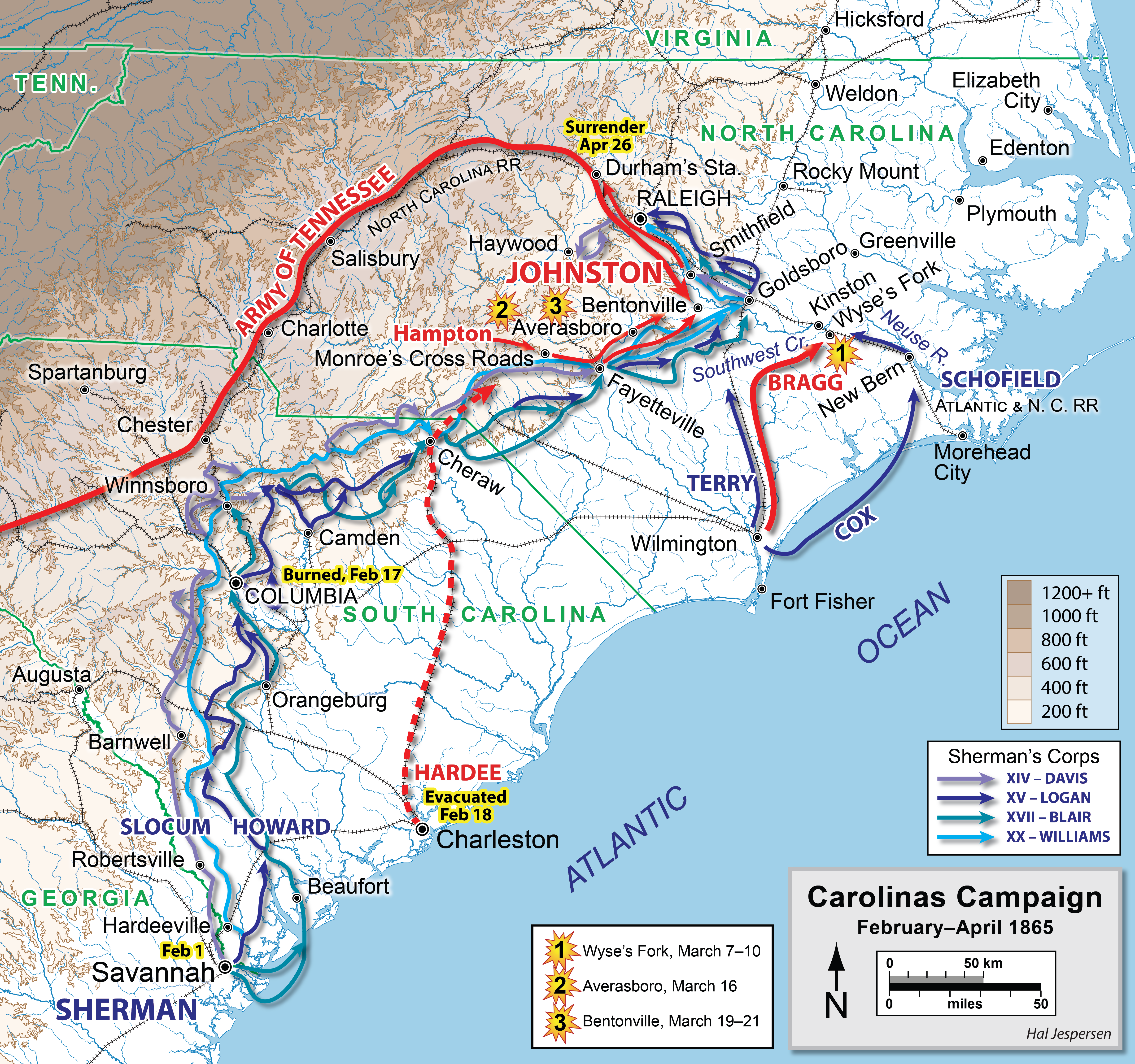 Map of the Carolinas Campaign of the American Civil War. Drawn by Hal Jespersen in Adobe Illustrator CS5. Graphic source file is available at